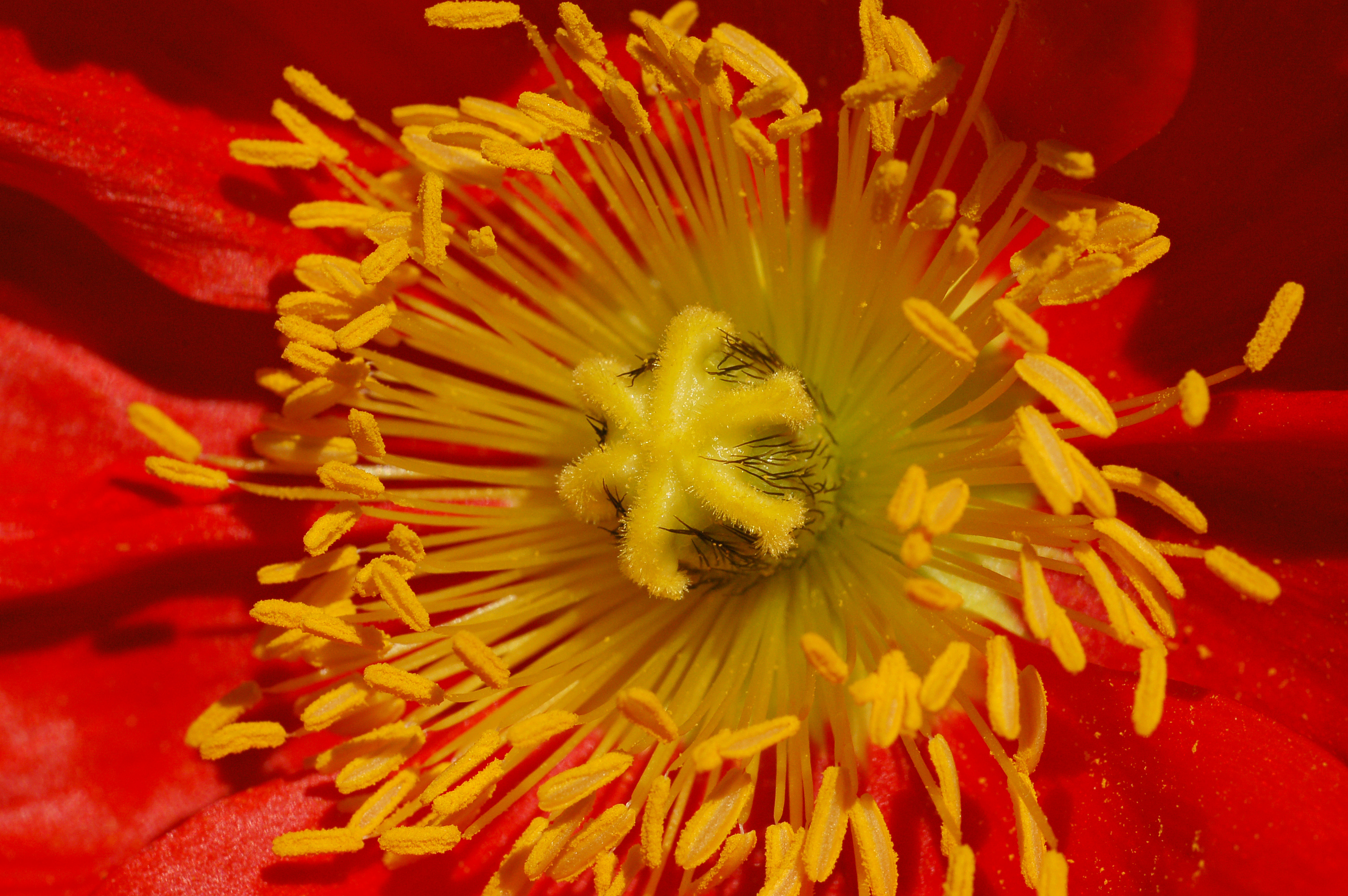 Closeup picture of the center of a red Iceland Poppyen (Papaver nudicaule en 'Champagne Bubbles') flower. Photo taken in the Teacup Garden at the Chanticleer Garden where the species was identified.